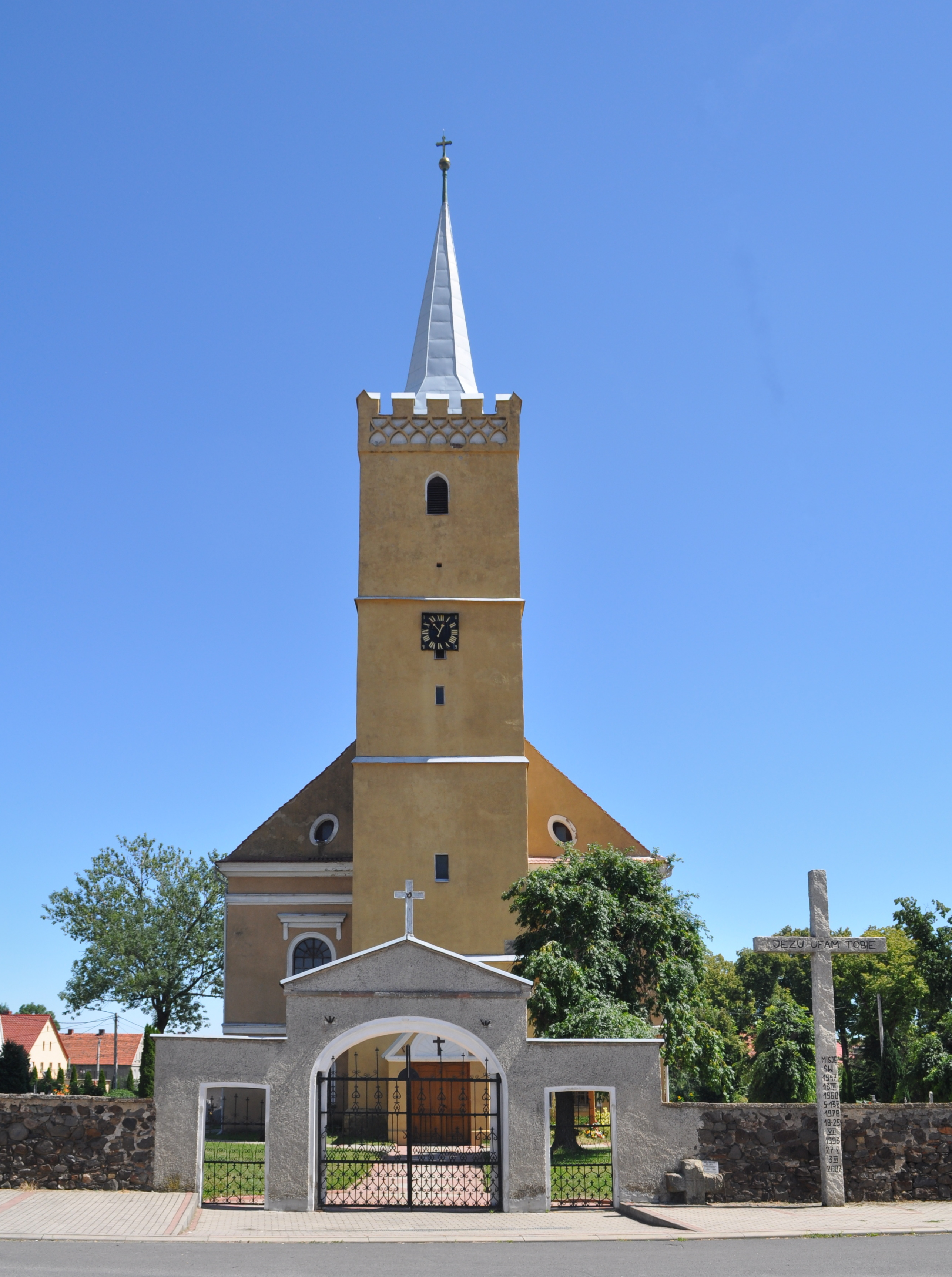 Saint Andrew church in Męcinka, Poland